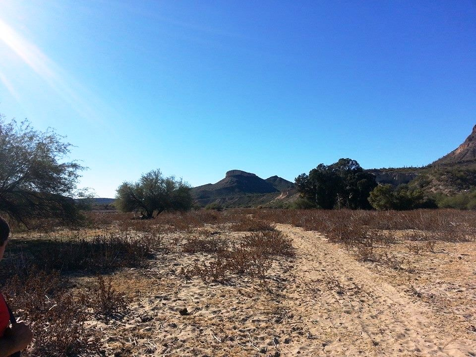 Hiking trail leading to Indian Mesa (in the background) in Arizona. The hiking trail is located on a portion of a canal which the Hohokam built in 700 AD.. The canal is now filled with soil. Information source: "Lake Pleasant (Images of America)", Author: Gerard Giordano; Page: 13; Arcadia Publishing; ISBN 978-0738571768.